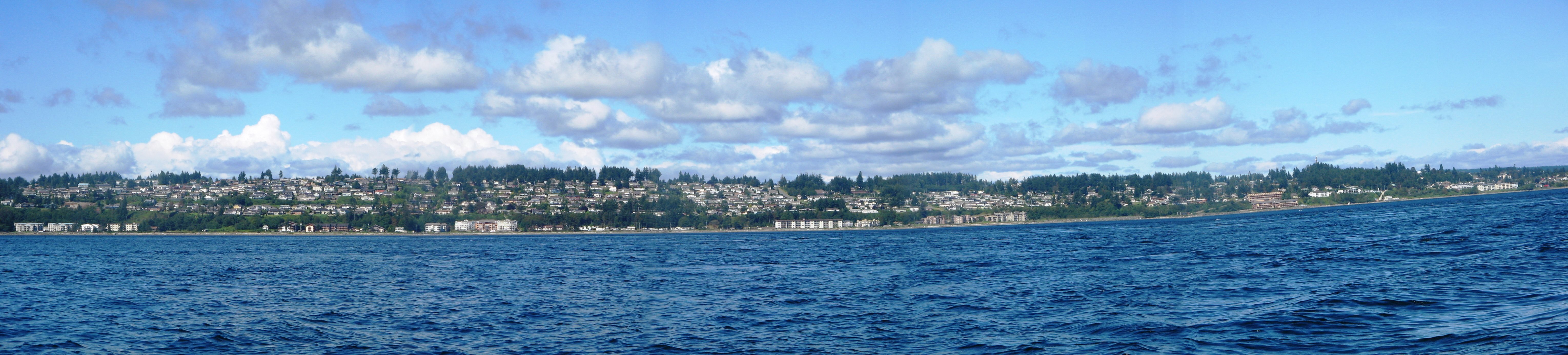 Campbell River panoramic photo taken by myself on a boat on the Georgia Strait by Campbell River. Taken on July 31st.